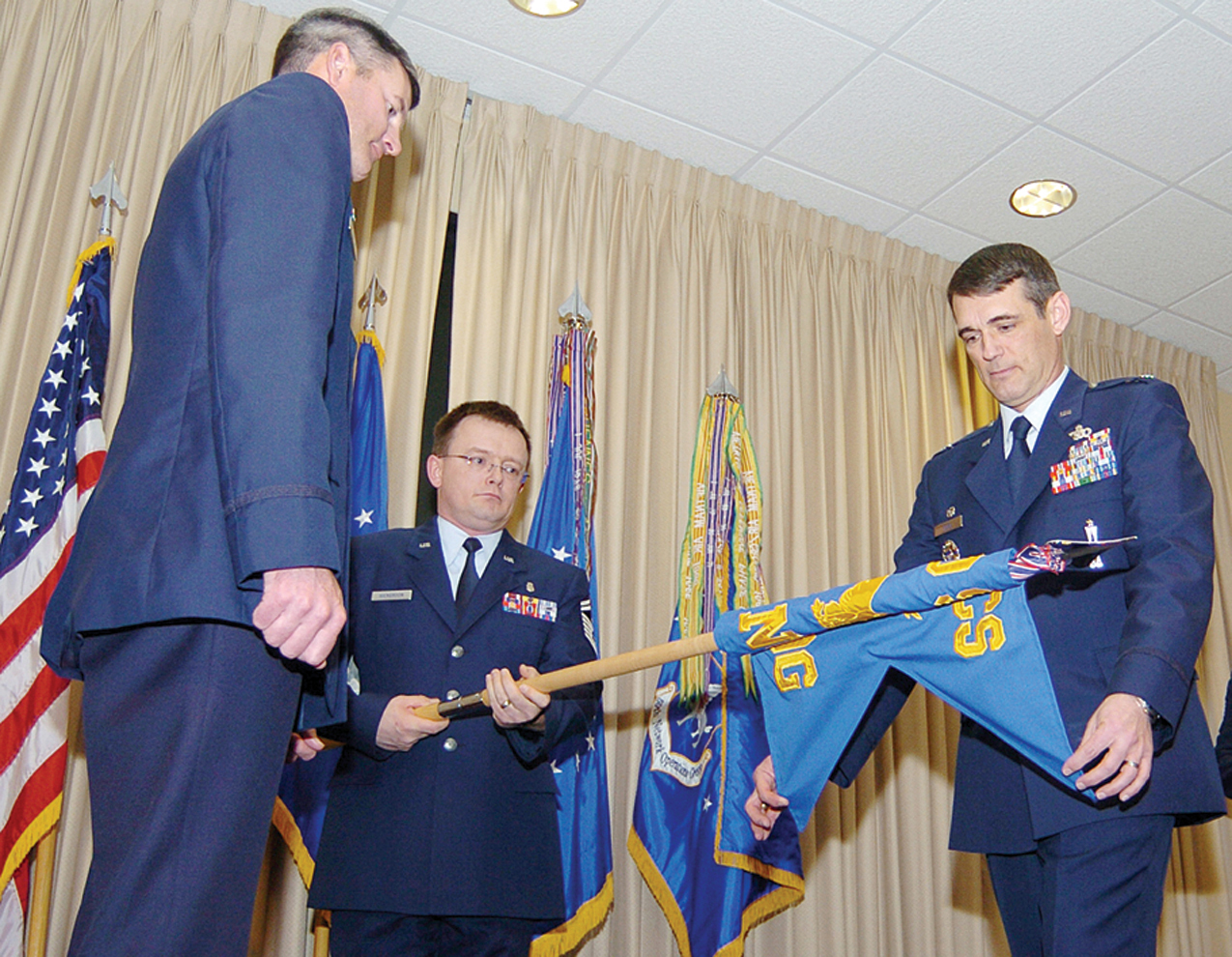 United States Air Force unit 850th Space Communications Squadron inactivates at ceremony; 50th Network Operations Group commander Col David Uhrich on left; 50th Network Operations Group First Sergeant SMSgt Hickerson center; 850th Space Communications Squadron commander Lt Col Danny Cecil on right